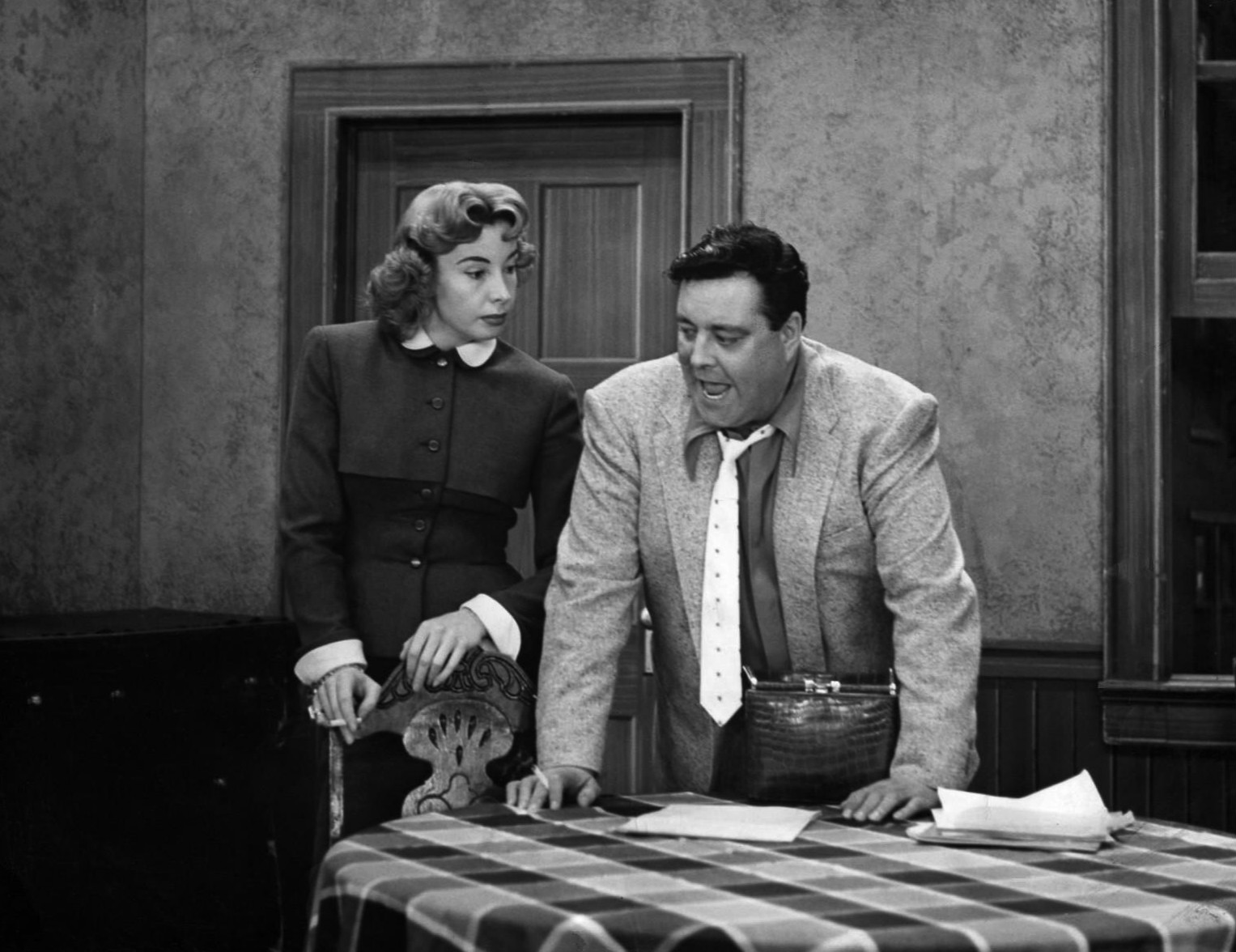 Photo of Audrey Meadows and Jackie Gleason as Ralph and Alice Kramden from the television program The Honeymooners.